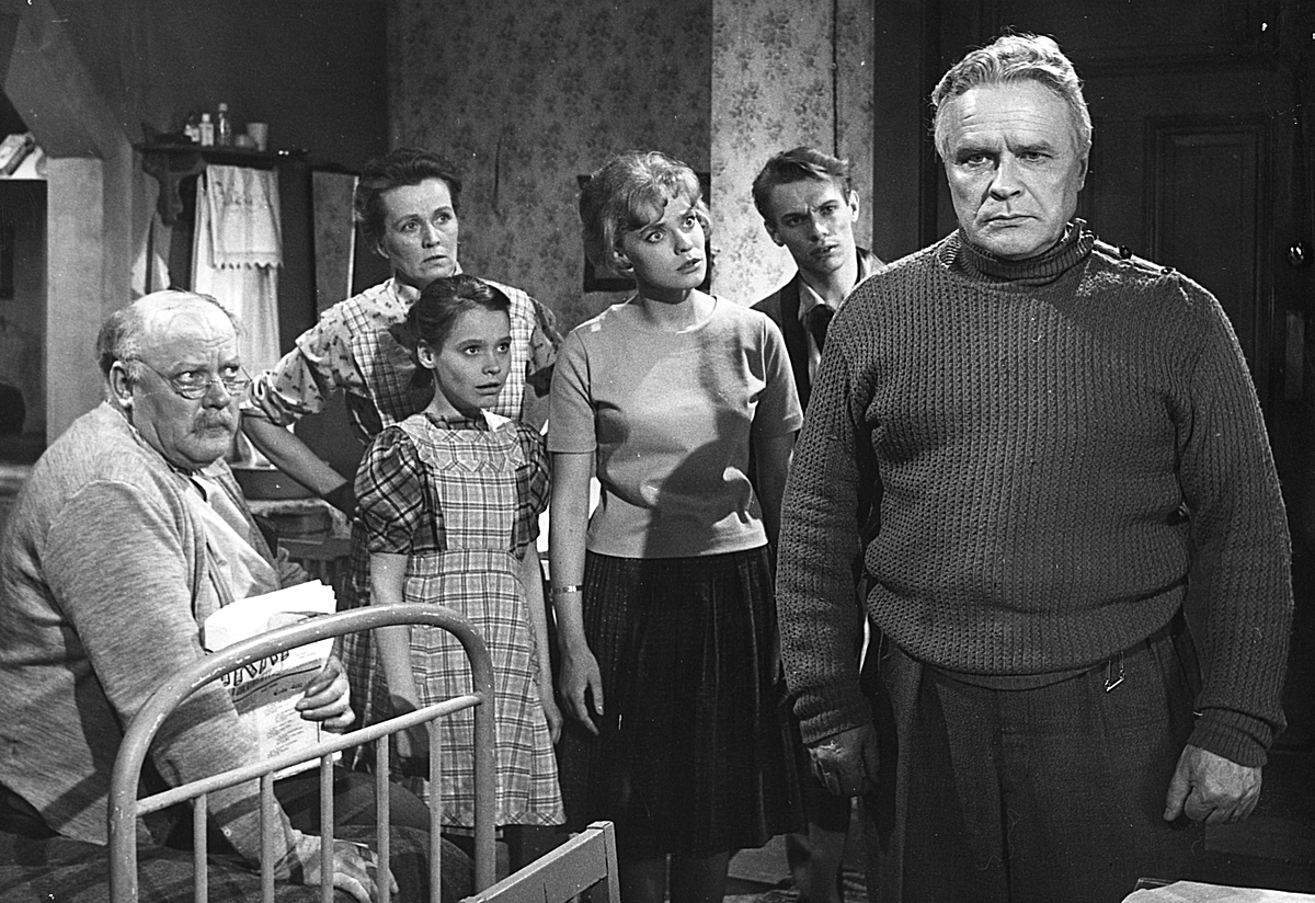 Capture from a film Pinsiön Paroni (1962)